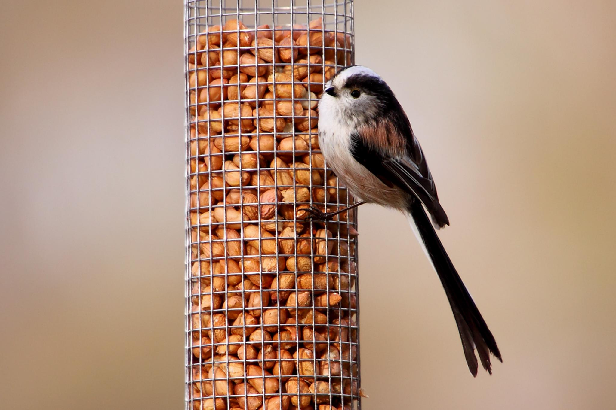 Long-Tailed Tit - RSPB Sandy